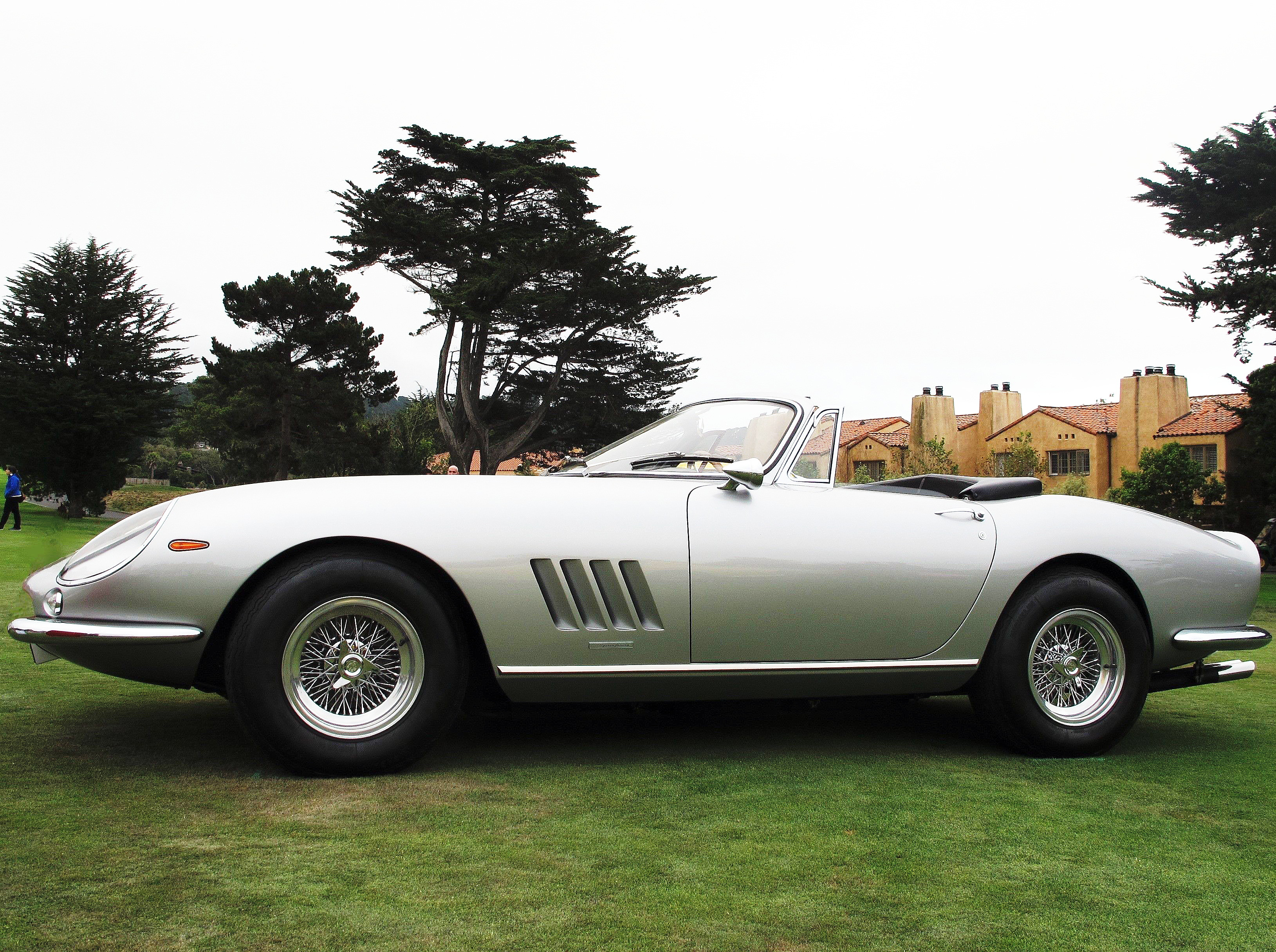 Ferrari 275 GBT/4 NART Spyder. Retouched Version of File:275 GTB4 NART Spyder.jpg